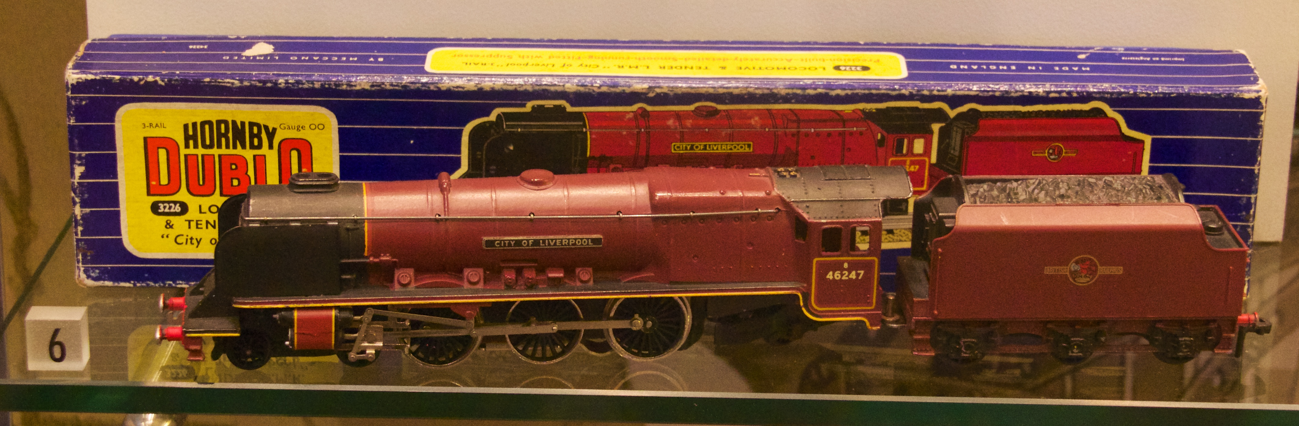 'City of Liverpool' locomotive model, about 1961. On display in the Museum of Liverpool.